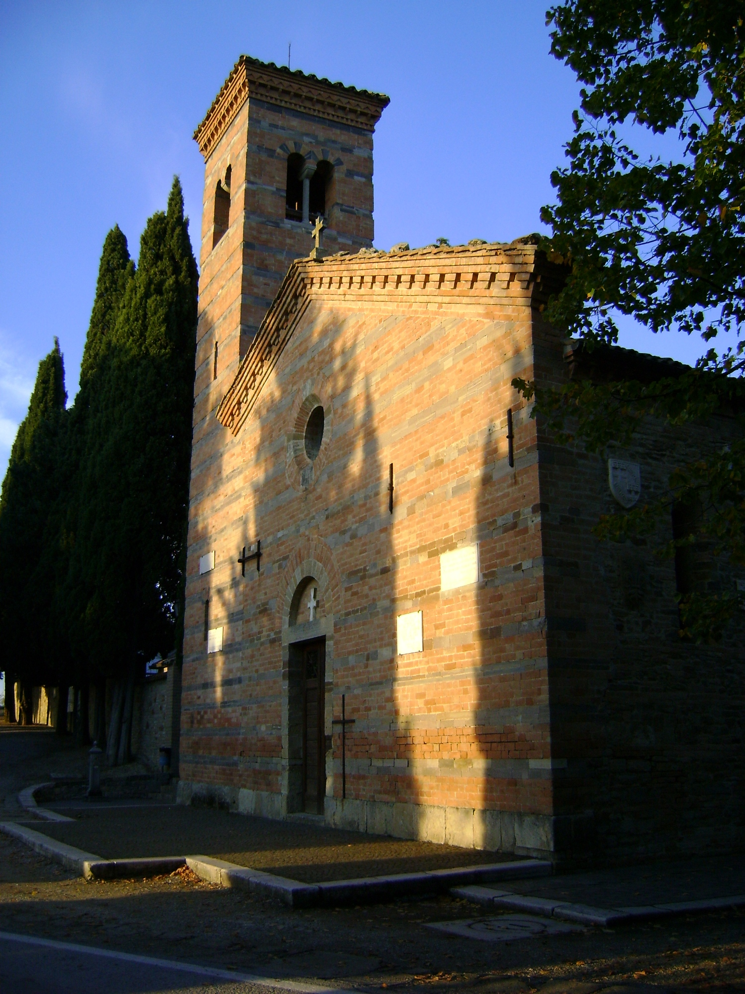 The facade of the church of San Donato in Polenta, Bertinoro, province of Forlì-Cesena, Emilia-Romagna